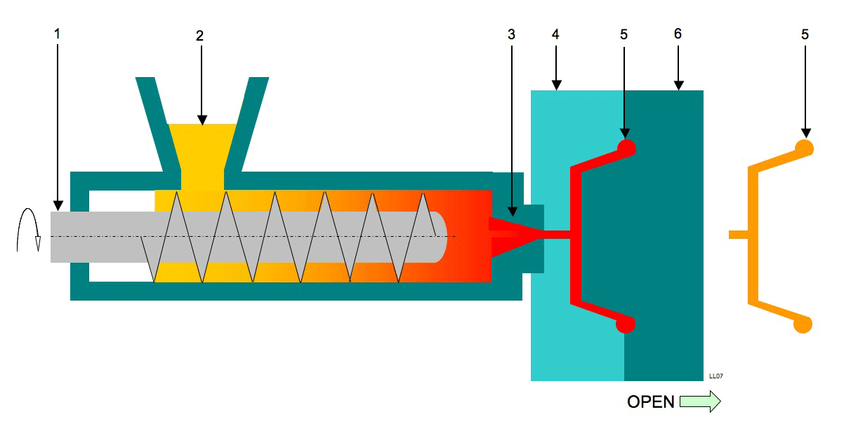 Injection moulding. Visualization of the Injection moulding process. March 2007. Laurens van Lieshout.